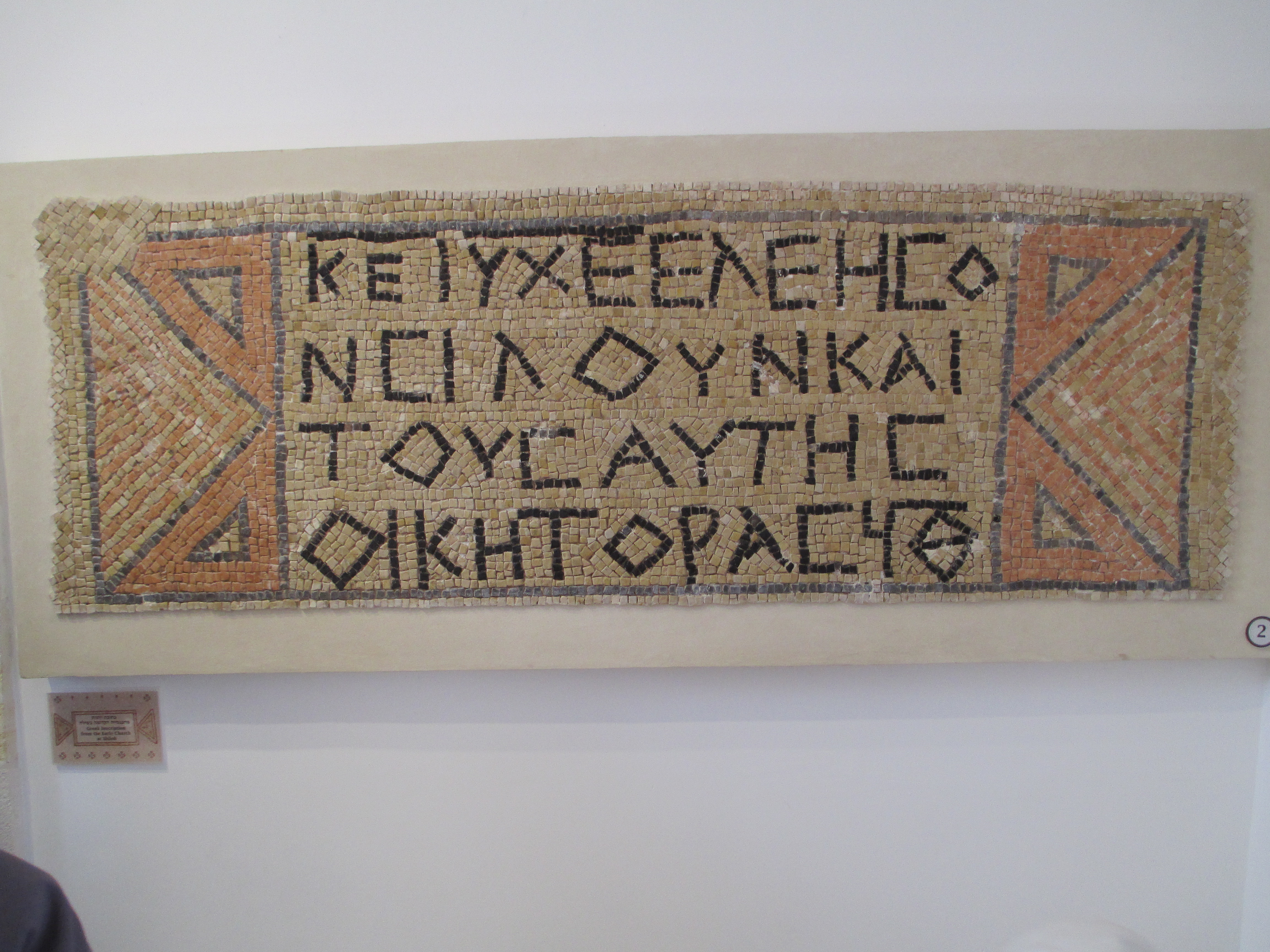 mosaic from tel shilo פסיפס מכנסייה בתל שילה המזכיר את העיר שילה